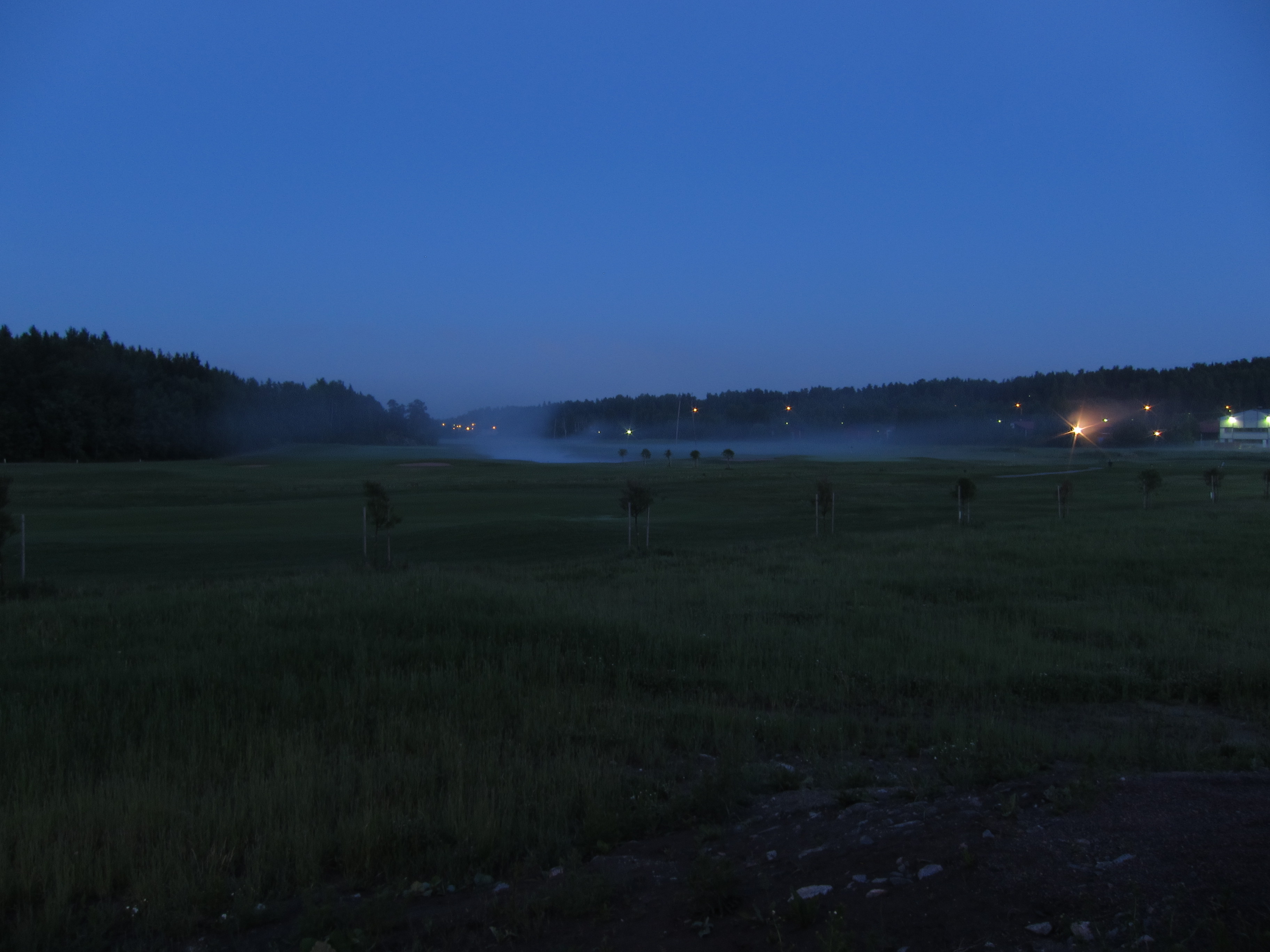 Naantali's Aurinko Golf is a 27-hole golf centre in Naantali Finland.